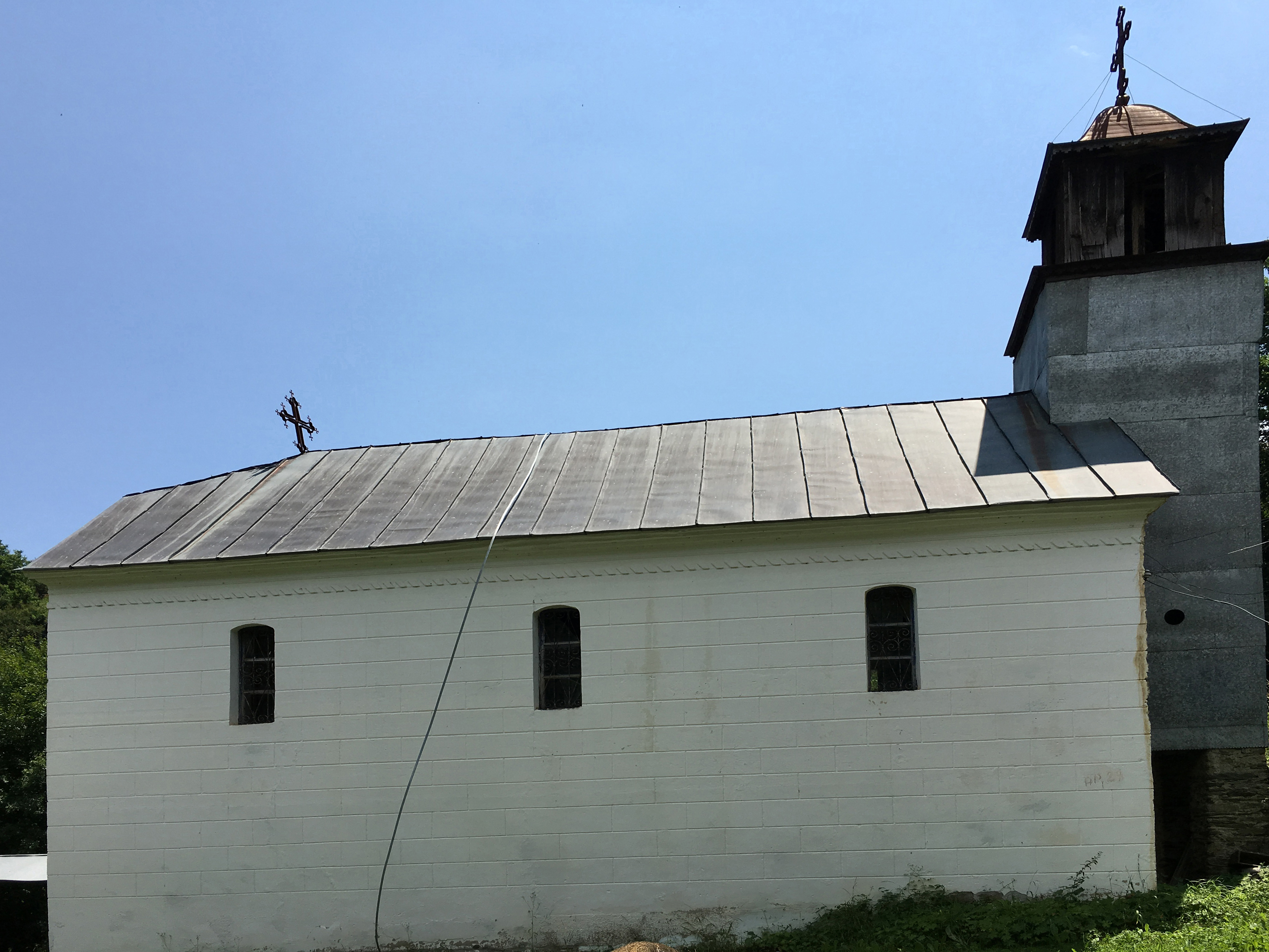 St. Nicholas Church in the village of Zrkle